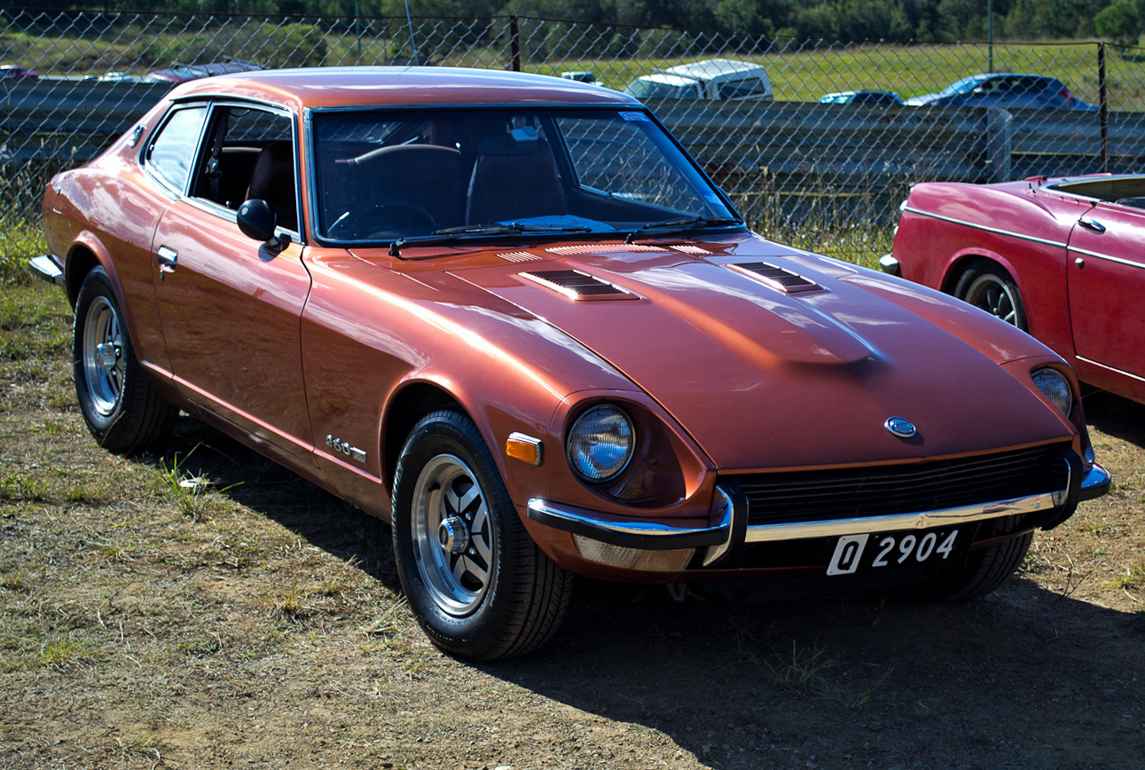 Datsun 260Z 2+2 in Australia. Plates are anonymized.